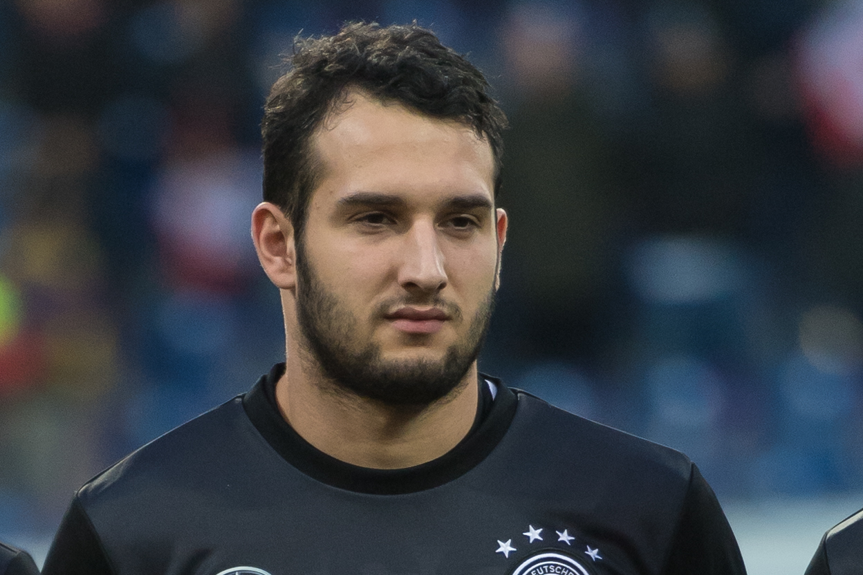 European Under-21 Championship 2017 Qualifying Round, Austria vs Germany, 11/10/2016, St. Polten